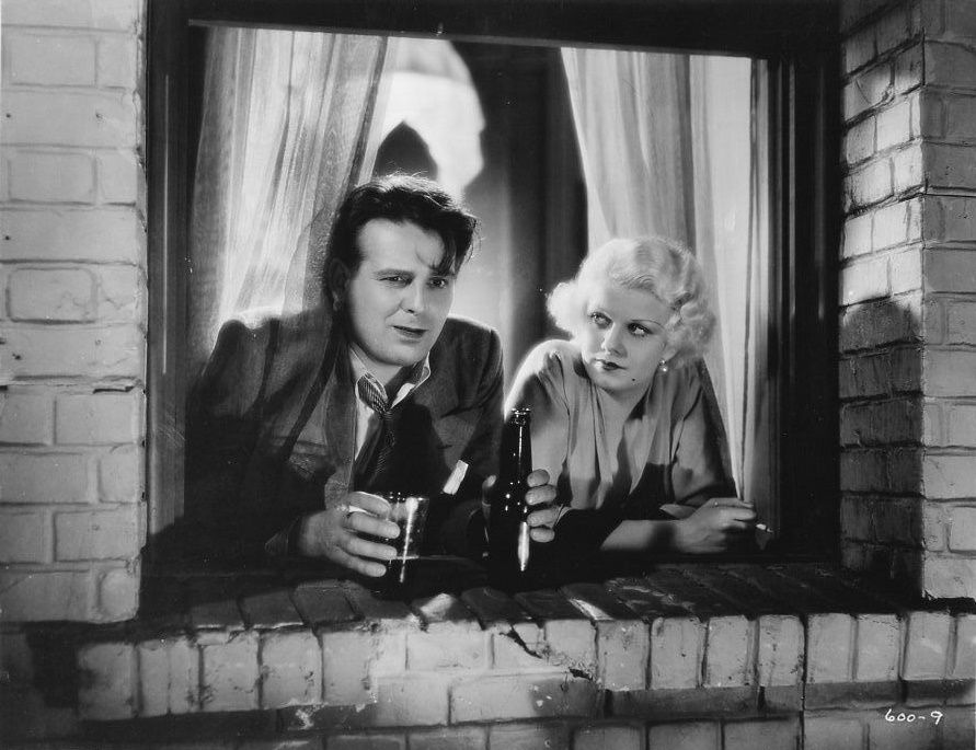 Promotional photo of Wallace Ford & Jean Harlow in the American gangster film The Beast of the City (1932).